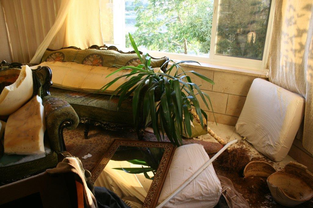 Living room in Hebron after Search by IDF 24 June 2014